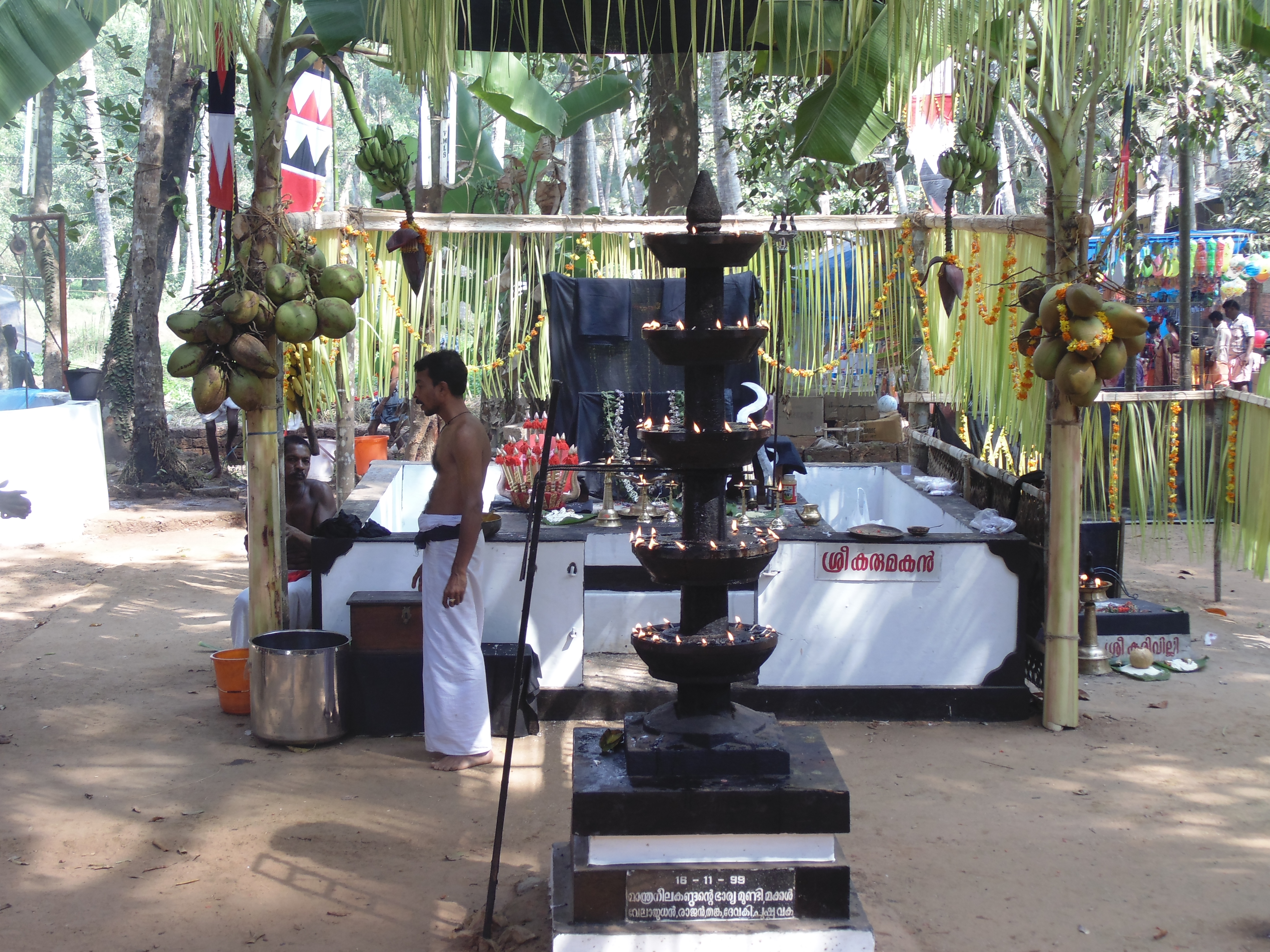 Thirayattam- A village shrine ( 'kaavu') in Ramanattukara, kozhikode(dt), Kerala, INDIA. "Thirayattam" folk dance performed in ftond of the shrine.